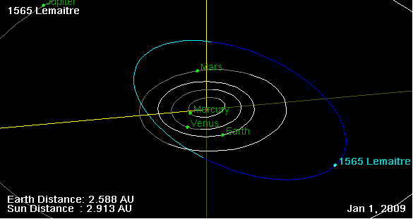 1565 Lemaître orbit, and his position on 01 Jan 2009 (NASA Orbit Viewer applet)